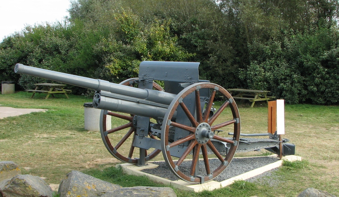 Russin canon Putilov, calibre 76.2, model 1917, Munitions factory of St. Petersburg. This canon was used by the German army to defend the Longues sur Mer coastal battery. On the 7th June 1944, the gun located on the edge of the cliff near the battery was neutralized by the British Army. As empty cases have been found nearby, it is thought to have been used during the fight.